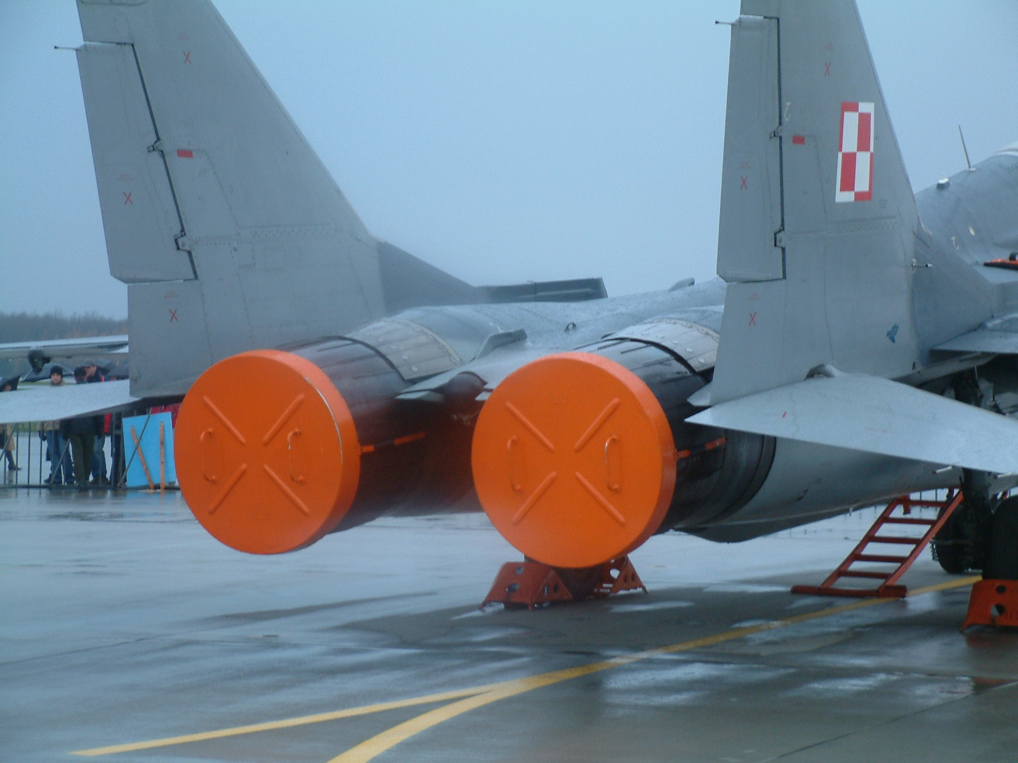 MiG-29A #114 of Polish Air Force, 31st. Air Base Poznań-Krzesiny